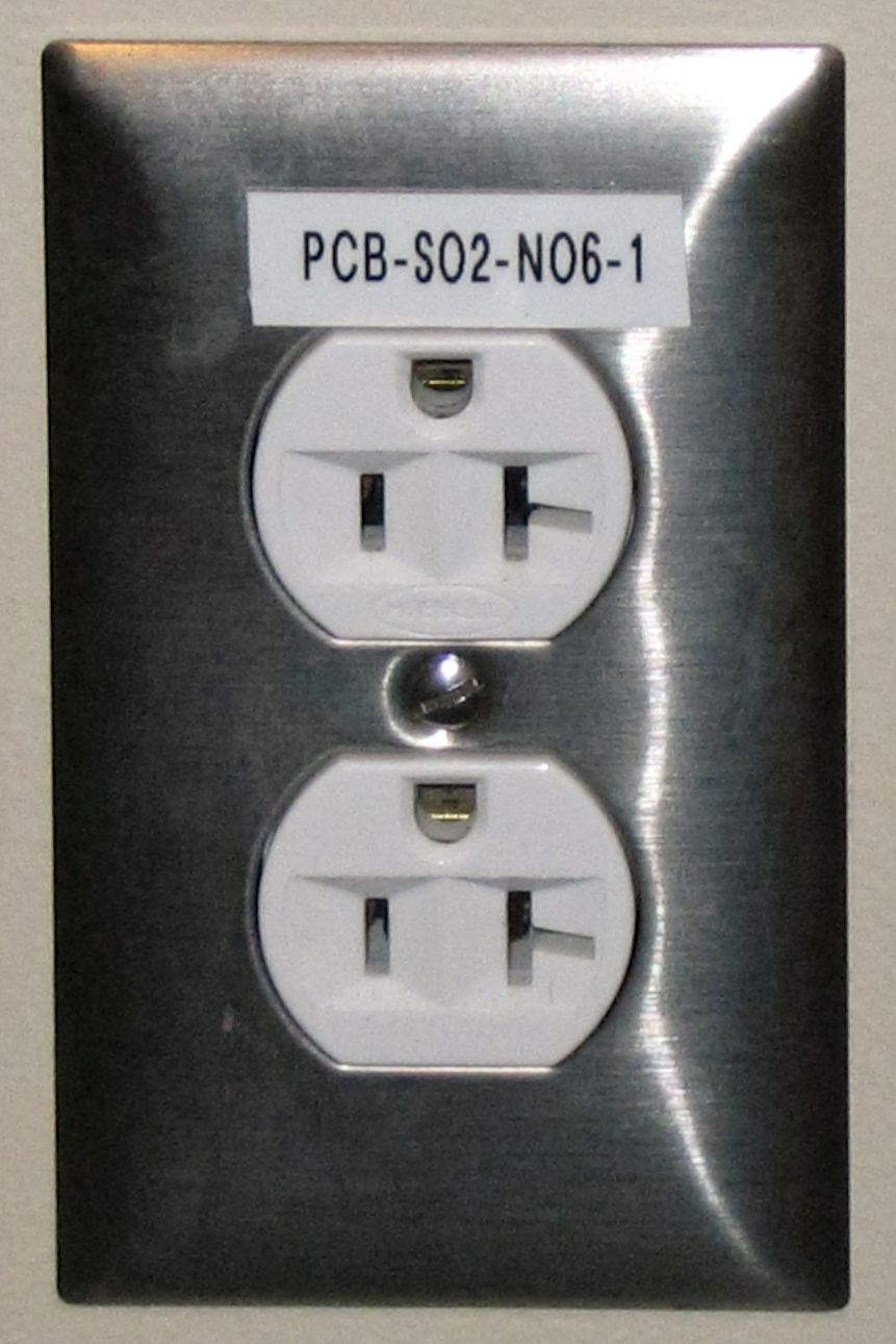 Electrical outlets in academic and corporate buildings are often labelled with numeric codes, to uniquely identify them. (Outlet is US-type B) (Taken by me.)